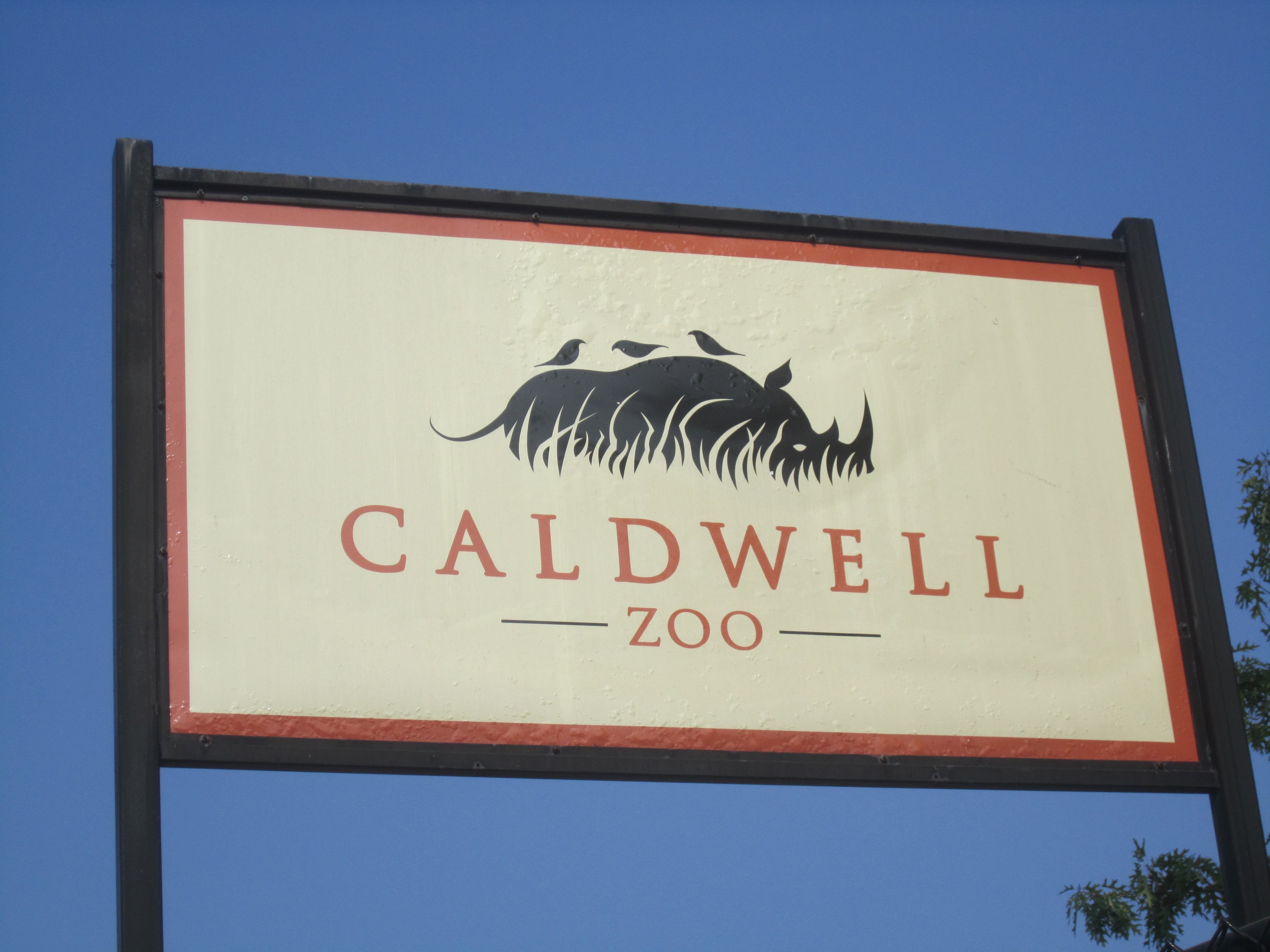 Caldwell Zoo sign. Photo taken in Tyler, Texas with the Canon PowerShot SD1400 IS camera.